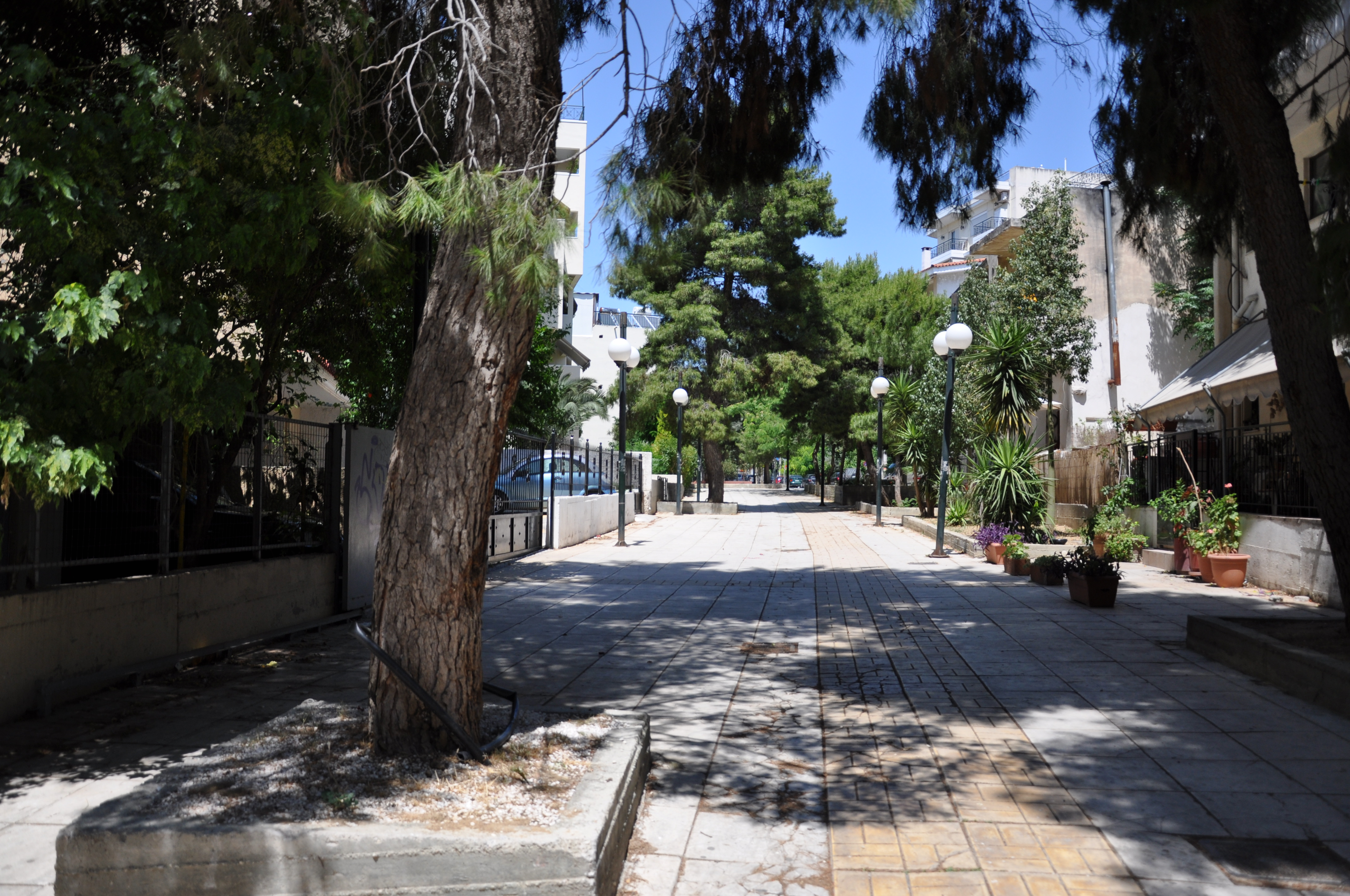 Nea Filadelfia... quiet neighbourhoos